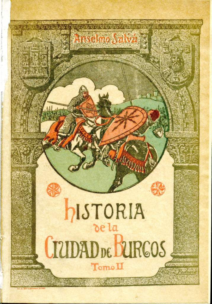 Historia de la ciudad de Burgos, 1915, tomo II, portada Mariano Pedrero, Biblioteca de la Diputación Provincial de Burgos